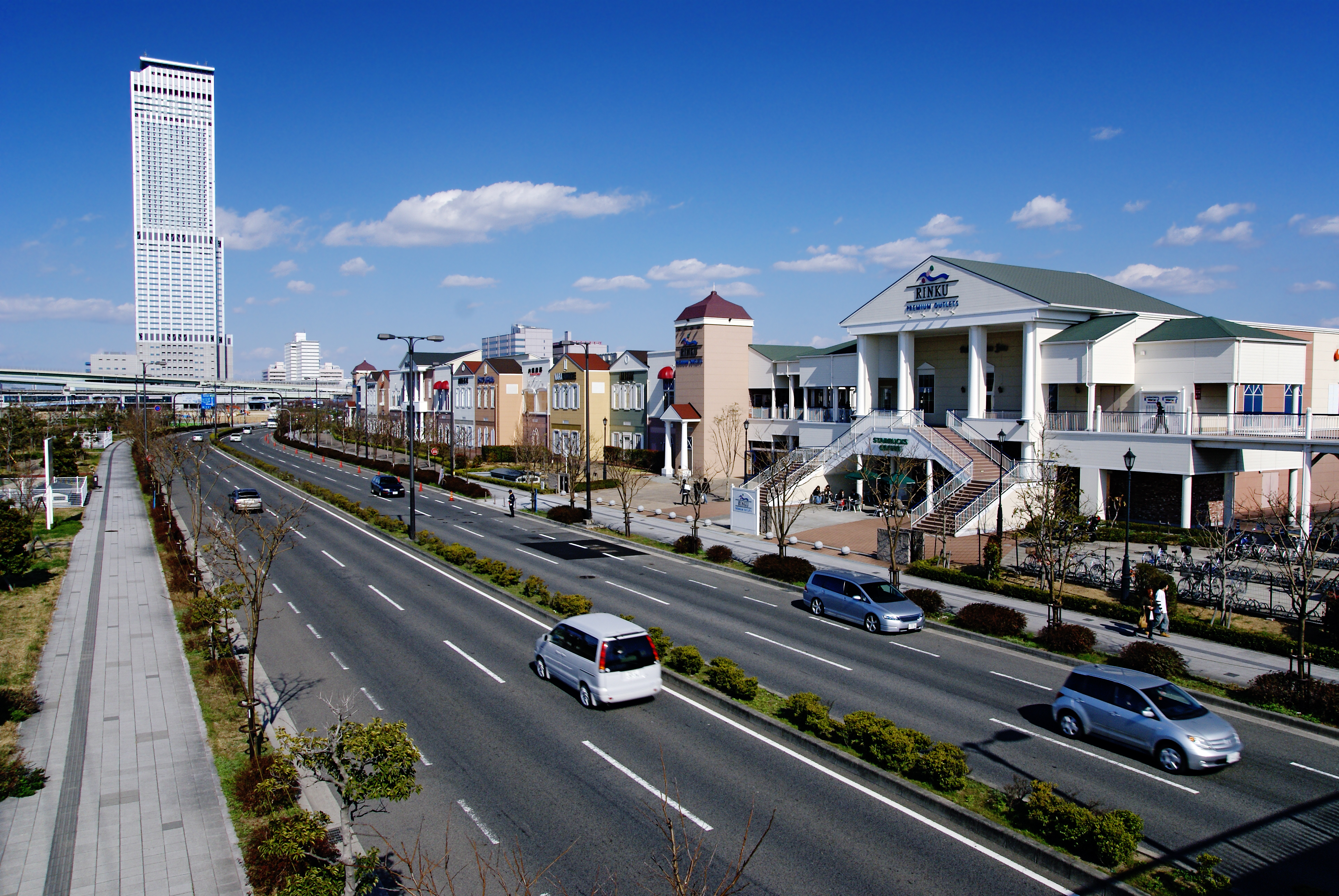 Rinku Premium Outlets in Izumisano, Osaka prefecture, Japan